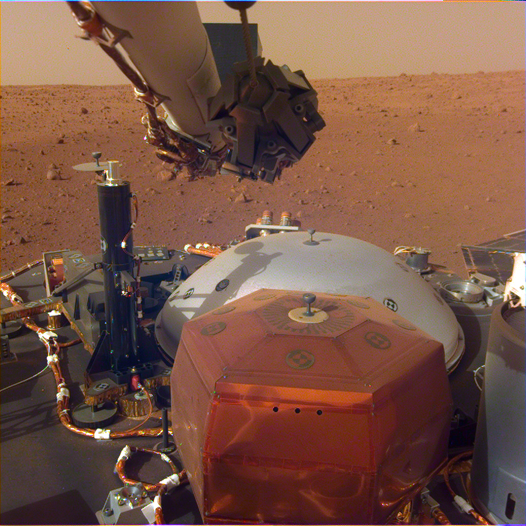 This image from InSight's robotic-arm mounted Instrument Deployment Camera shows the instruments on the spacecraft's deck, with the Martian surface of Elysium Planitia in the background. The color-calibrated picture was acquired on Dec. 4, 2018 (Sol 8). In the foreground, a copper-colored hexagonal cover protects the Seismic Experiment for Interior Structure instrument (SEIS), a seismometer that will measure marsquakes. The gray dome behind SEIS is the wind and thermal shield, which will be placed over SEIS. To the left is a black cylindrical instrument, the Heat Flow and Physical Properties Probe (HP3). HP3 will drill up to 16 feet (5 meters) below the Martian surface, measuring heat released from the interior of the planet. Above the deck is InSight's robotic arm, with the stowed grapple directly facing the camera. To the right can be seen a small portion of one of the two solar panels that help power InSight and part of the UHF communication antenna. JPL manages InSight for NASA's Science Mission Directorate. InSight is part of NASA's Discovery Program, managed by the agency's Marshall Space Flight Center in Huntsville, Alabama. A number of European partners, including France's Centre National d'Études Spatiales (CNES) and the German Aerospace Center (DLR), are supporting the InSight mission. CNES, and the Institut de Physique du Globe de Paris (IPGP), provided the SEIS instrument, with significant contributions from the Max Planck Institute for Solar System Research (MPS) in Germany, the Swiss Institute of Technology (ETH) in Switzerland, Imperial College and Oxford University in the United Kingdom, and JPL. DLR provided the HP3 instrument, with significant contributions from the Space Research Center (CBK) of the Polish Academy of Sciences and Astronika in Poland. Spain's Centro de Astrobiologí­a (CAB) supplied the wind sensors. For more information about the mission, go to